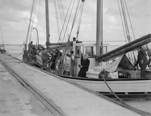 This is a photograph of the Batavia Road one of the first boats ever involved in commercial tourism in the Houtman Abrolhos. Between 1946 and 1948, the Batavia Road and Suda Bay were used by Dal Gaze and Alan Fox to transport tourists to and from the Houtman Abrolhos, especially Pelsaert Island. This represents the first known commercial tourist operation in the Houtman Abrolhos. In 1948, the partnership between Gaze and Fox broke up, but Gaze continued using the Batavia Road for tourism, and also used it to transport stores to fishermen stationed in the Pelsaert Group. During a severe storm in June 1948, it ran aground on Half Moon Reef and was nearly sunk. Gaze eventually wound up his tourist operation in 1951. The Batavia Road later foundered on rocks 30 kilometres north of Geraldton in January 1974.